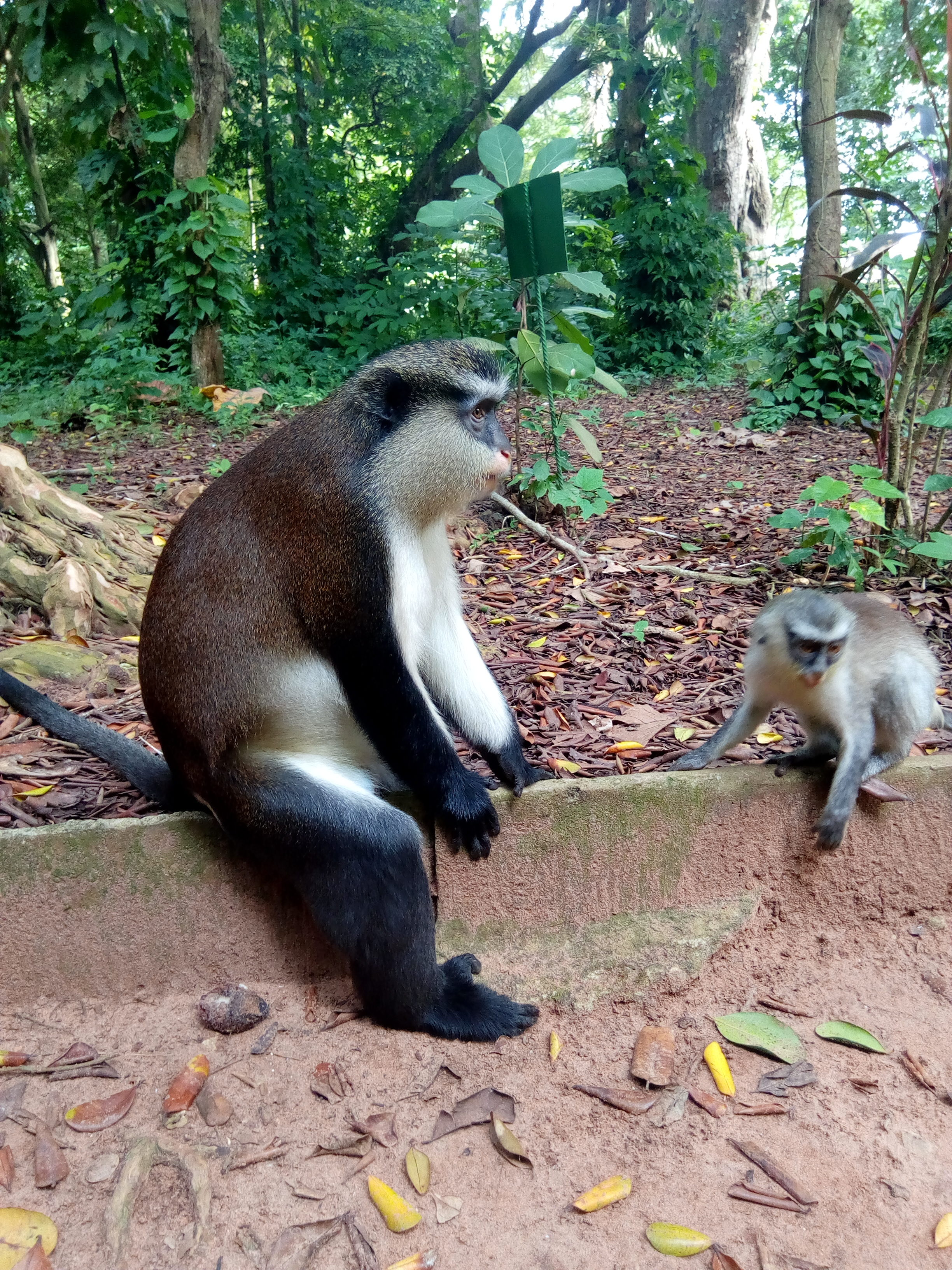 The Garden of Plants and Nature of Porto is composed of various species of both animals and plants. Monkeys are among the animal species found in this garden. But they are white-bellied monkeys (Cercopithecus mona)